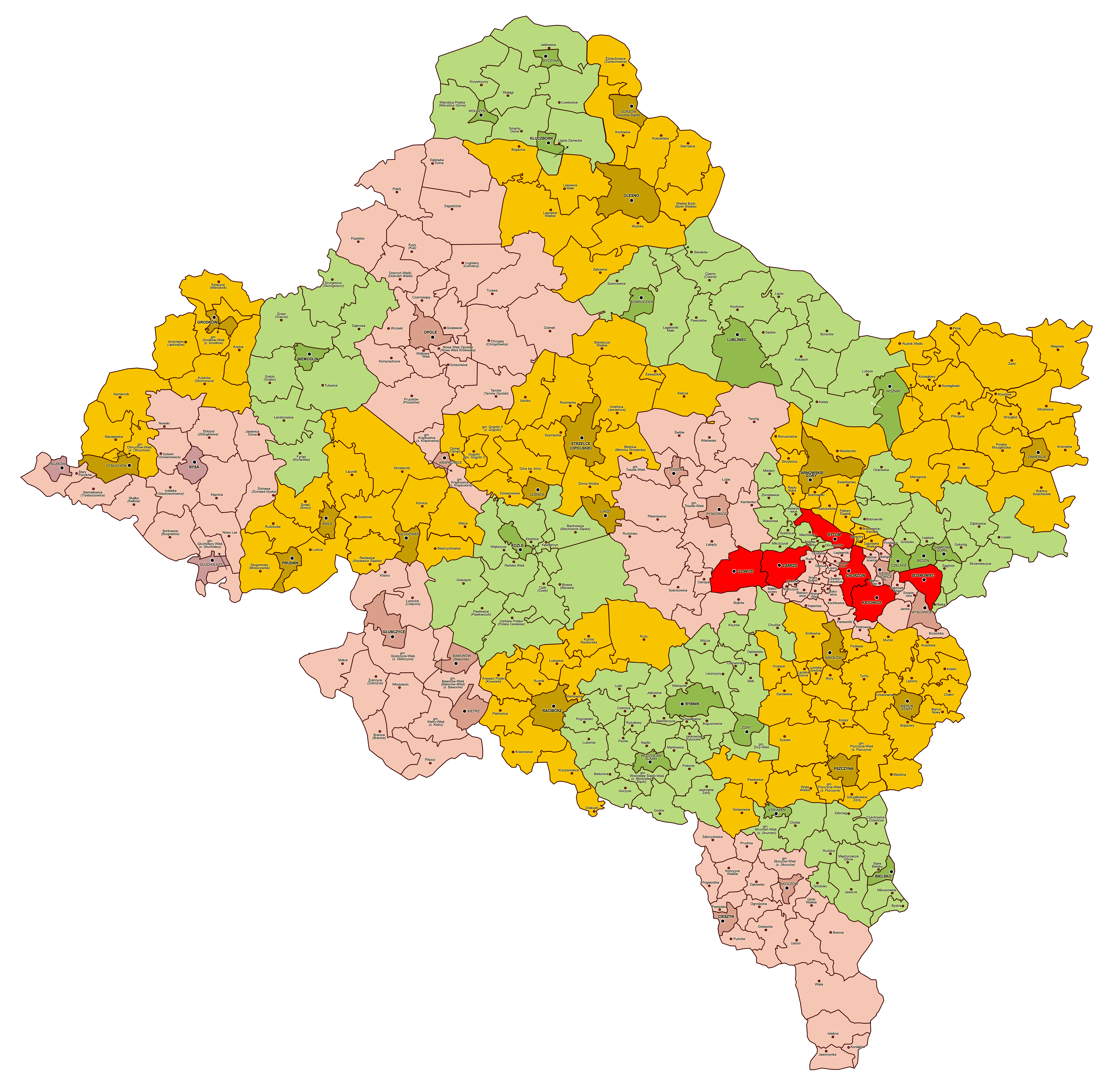 Administrative map of Silesian Voivodeship as of 1946, with marked poviats (counties) and gminas (municipalities). Urban gminas depicted in dark shade. City poviats depicted in red color.